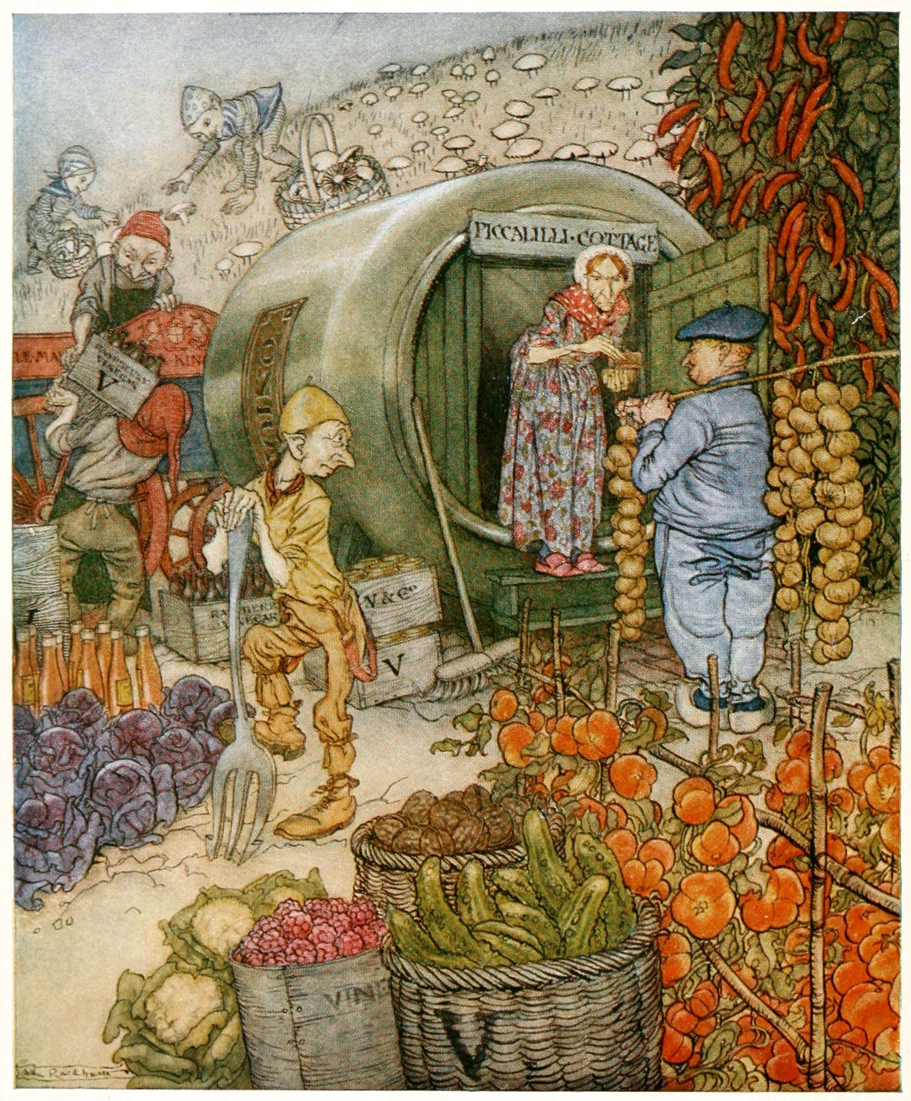 Illustration given at front of volume of fairy tales. The caption refers to a stroy in the volume, "Mr. and Mrs. Vinegar at home"